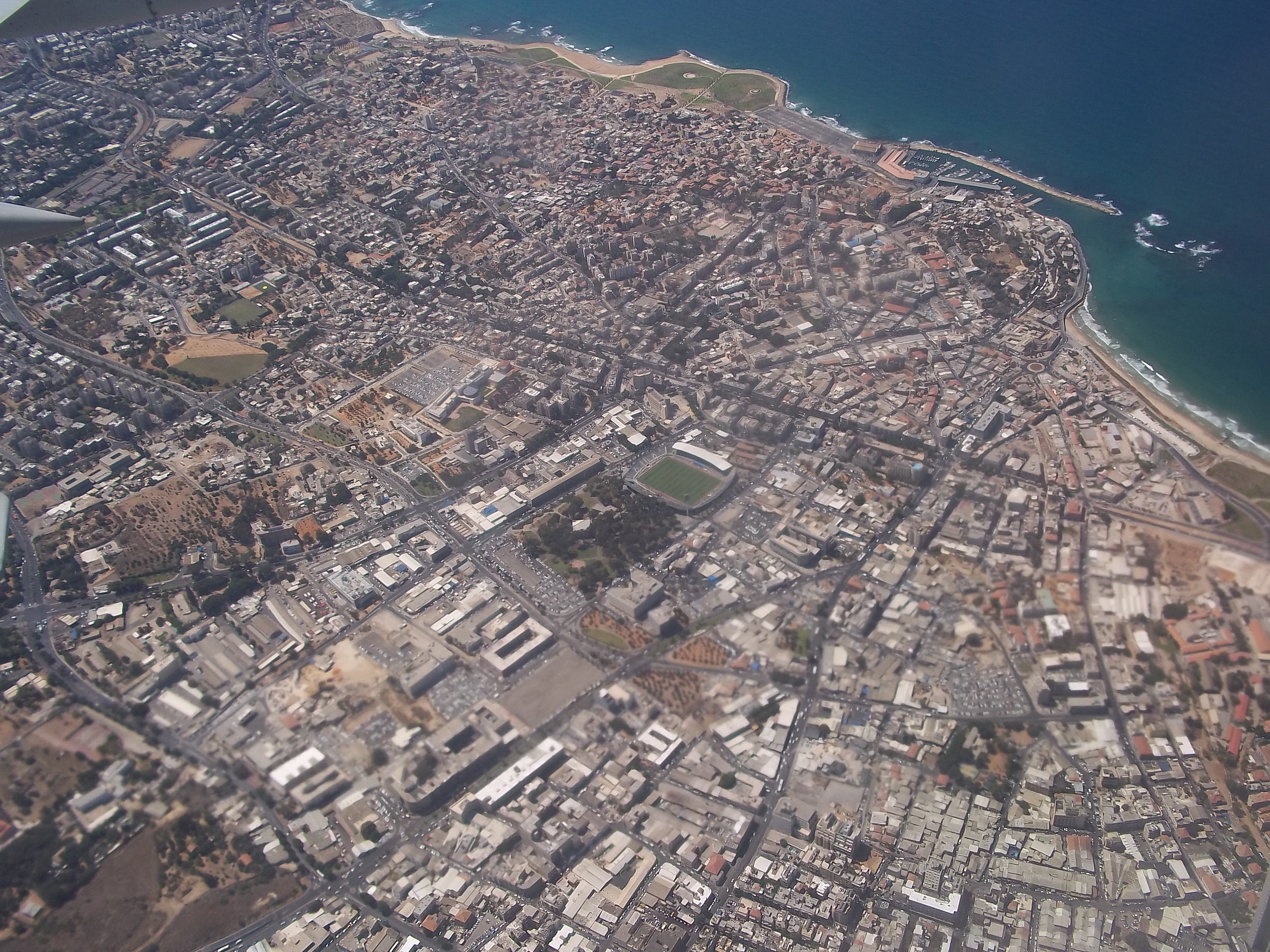 Aerial view of Yaffo